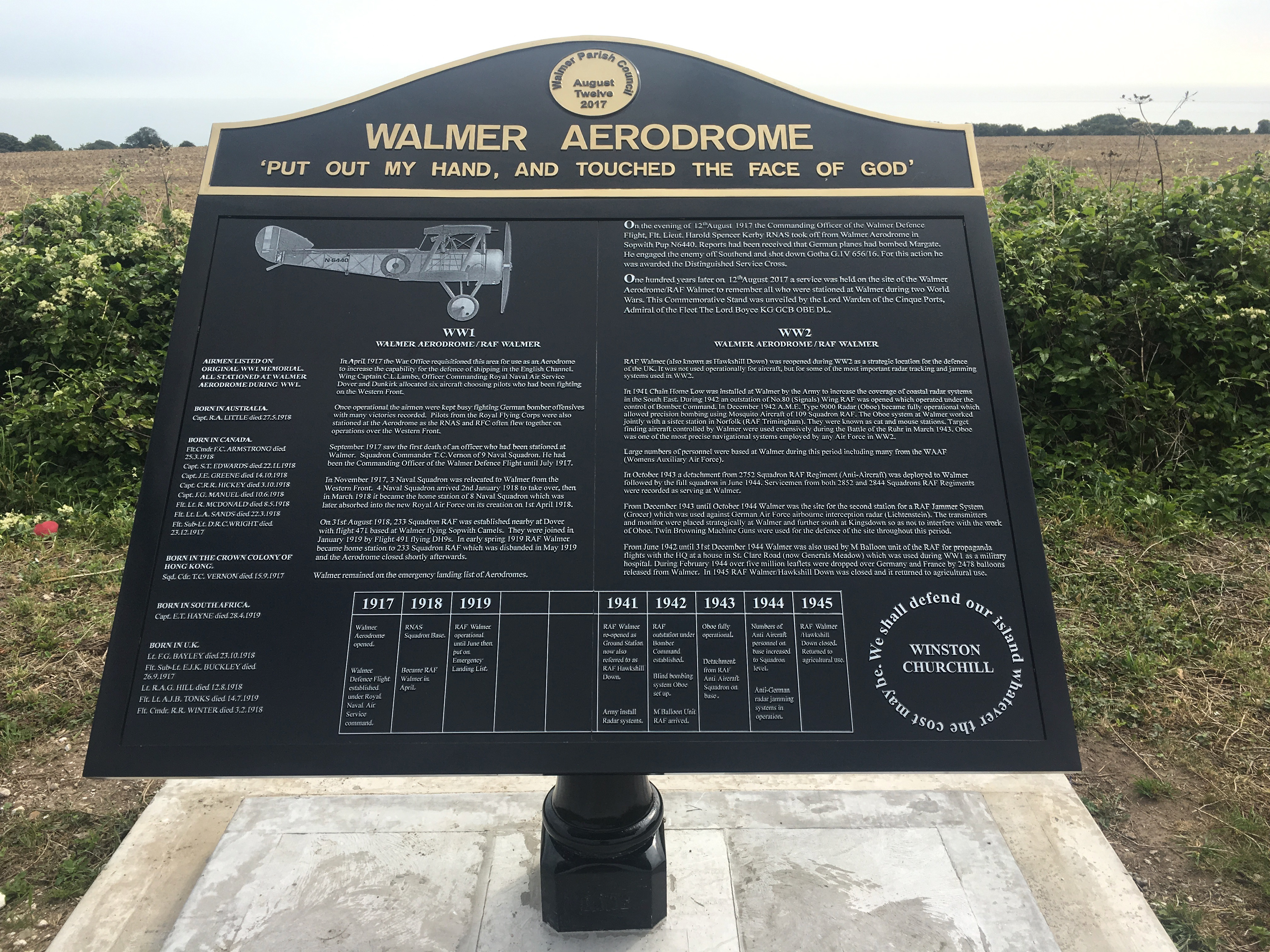 A modern monument marking the site of the former World War I and II airfield located near the Kentish coastal town of Walmer.